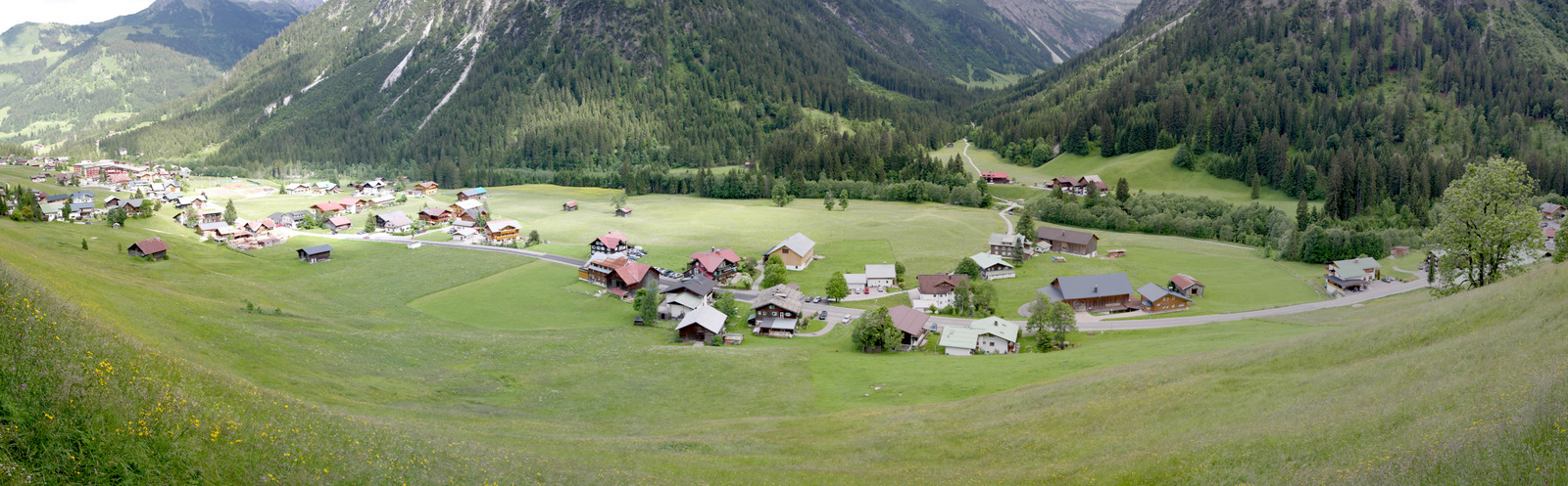 Mittelberg, Austria